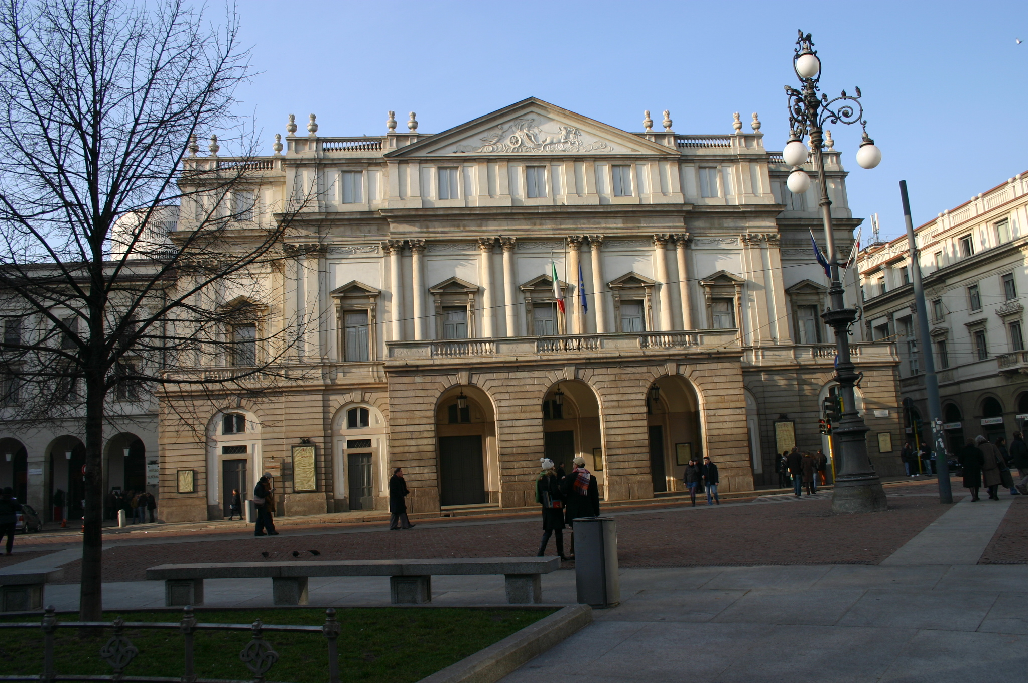 Milan, Italy: the "Teatro alla Scala" Opera house in "Piazza della Scala" square. Picture by Giovanni Dall'Orto, January 20 2007.